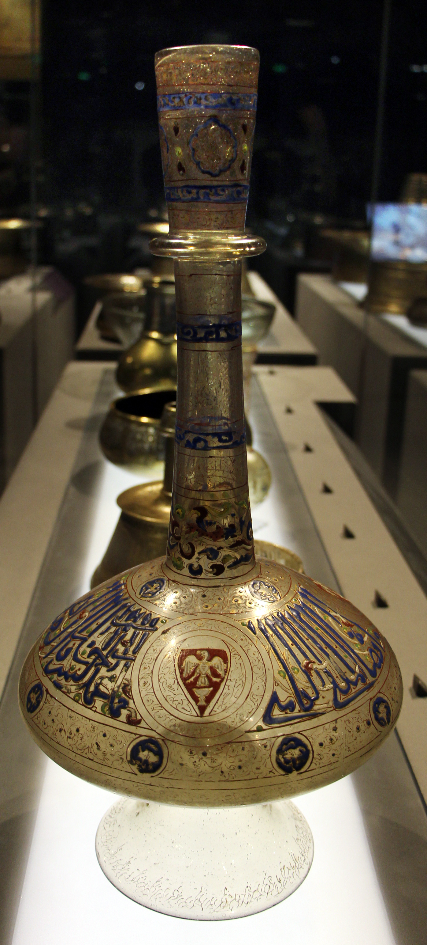 Islamic glassware in the Louvre